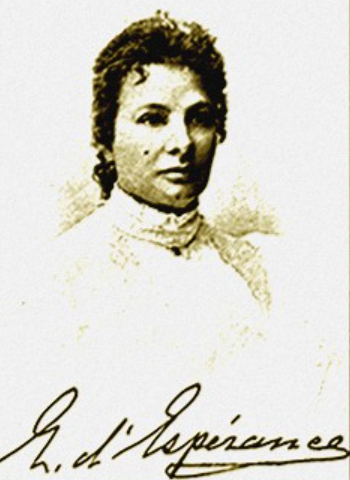 The medium Elizabeth d'Espérance.